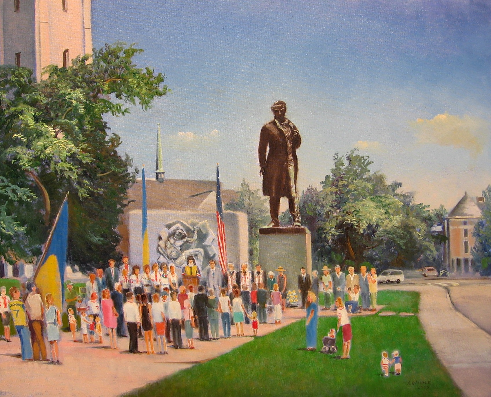 "Celebrating the 50th Anniversary of the Taras Shevchenko Monument, Washington, DC/, 20" x 24" Oil on Canvas, Collection: Embassy of Ukraine, Washington, DC.", Andrei Kushnir